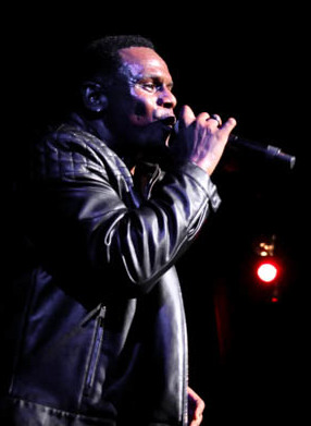 Carl Thomas performs at the Legends of Bad Boy Records concert at the Saban Theatre in Beverly Hills, California on November 21, 2014.